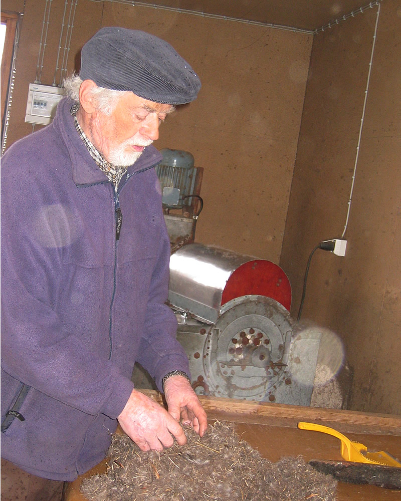 Eiderdown harvesting. Farmer in Skáleyjar, Iceland is cleaning and drying the down, lots of hay is in the uncleaned down. Piemontèis: Ël travaj dla piuma.